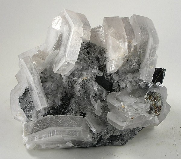 Calcite Locality: Daye County, Huangshi Prefecture, Hubei Province, China (Locality at ) Size: 13.7 x 9.4 x 8.4 cm. A large, dramatic specimen from a recent find in China, featuring these huge and rather amazing disc-like, hexagonal crystals, to 6 cm across - with lustrous side faces and milky terminations sandwiching translucent interiors. Just a bit of damage here and there and mostly on the periphery: most of the major crystals are in fine condition. These crystals are truly bizarre, in person!